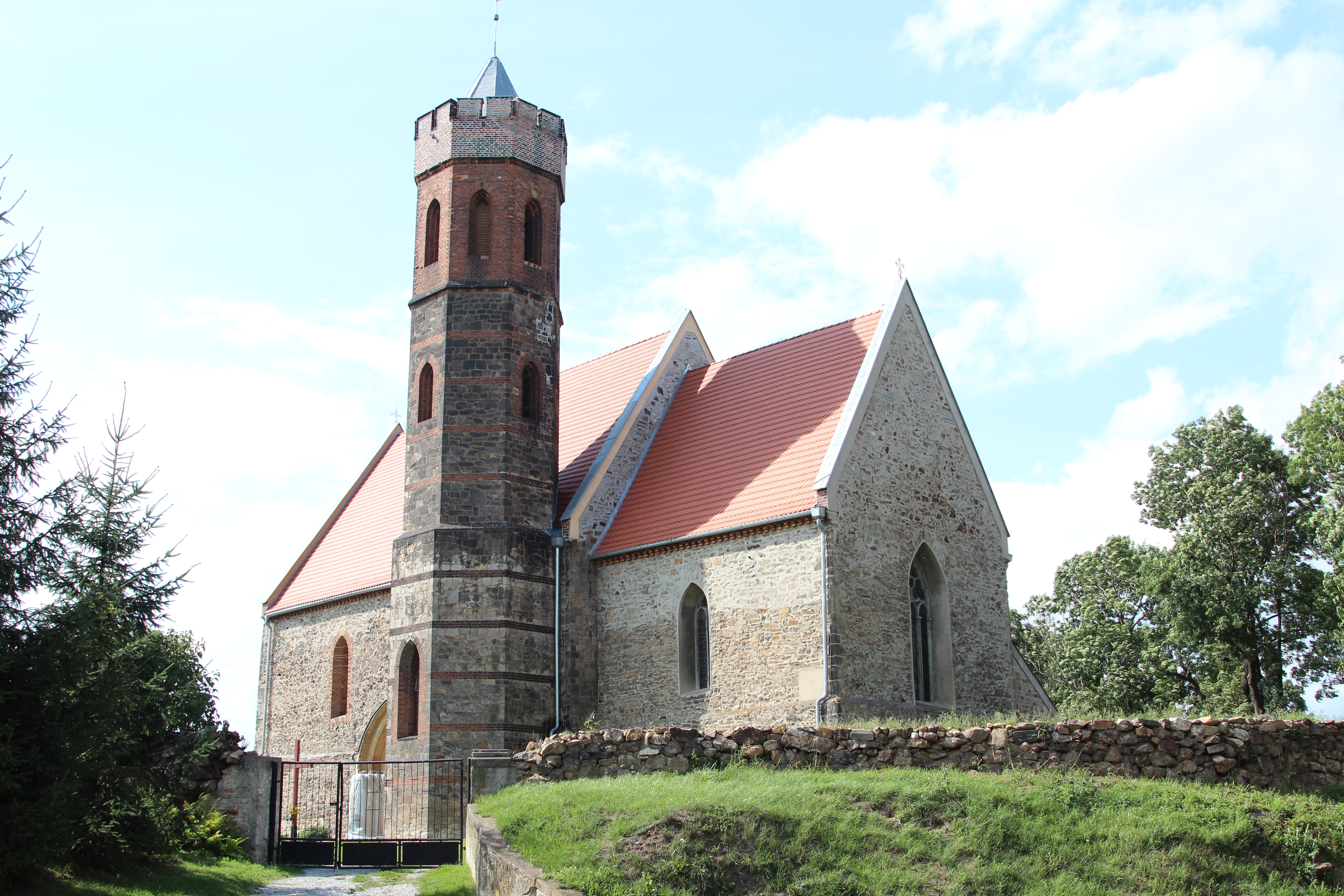 Saint Joseph church in Pożarzysko